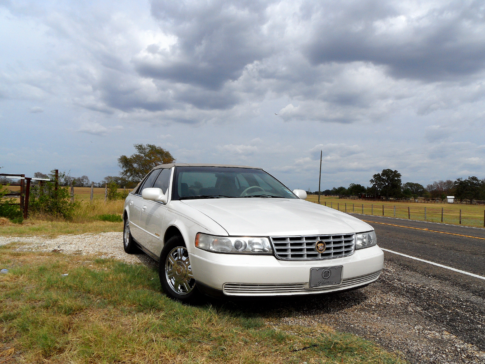 2000 Cadillac Seville SLS